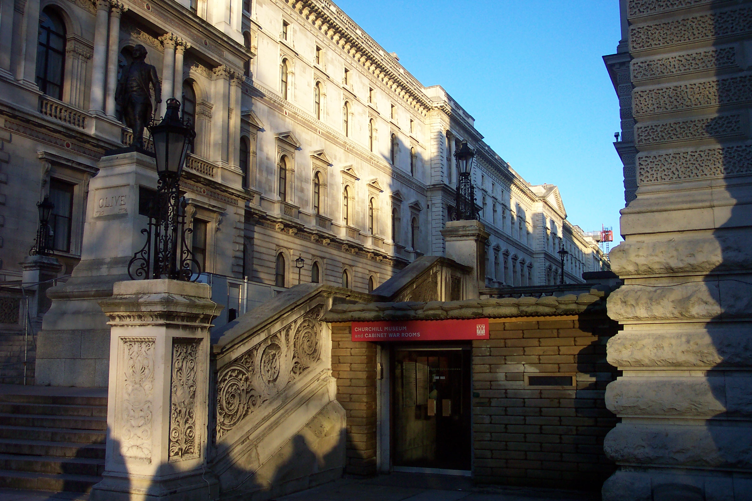 The Cabinet War Rooms' entrance